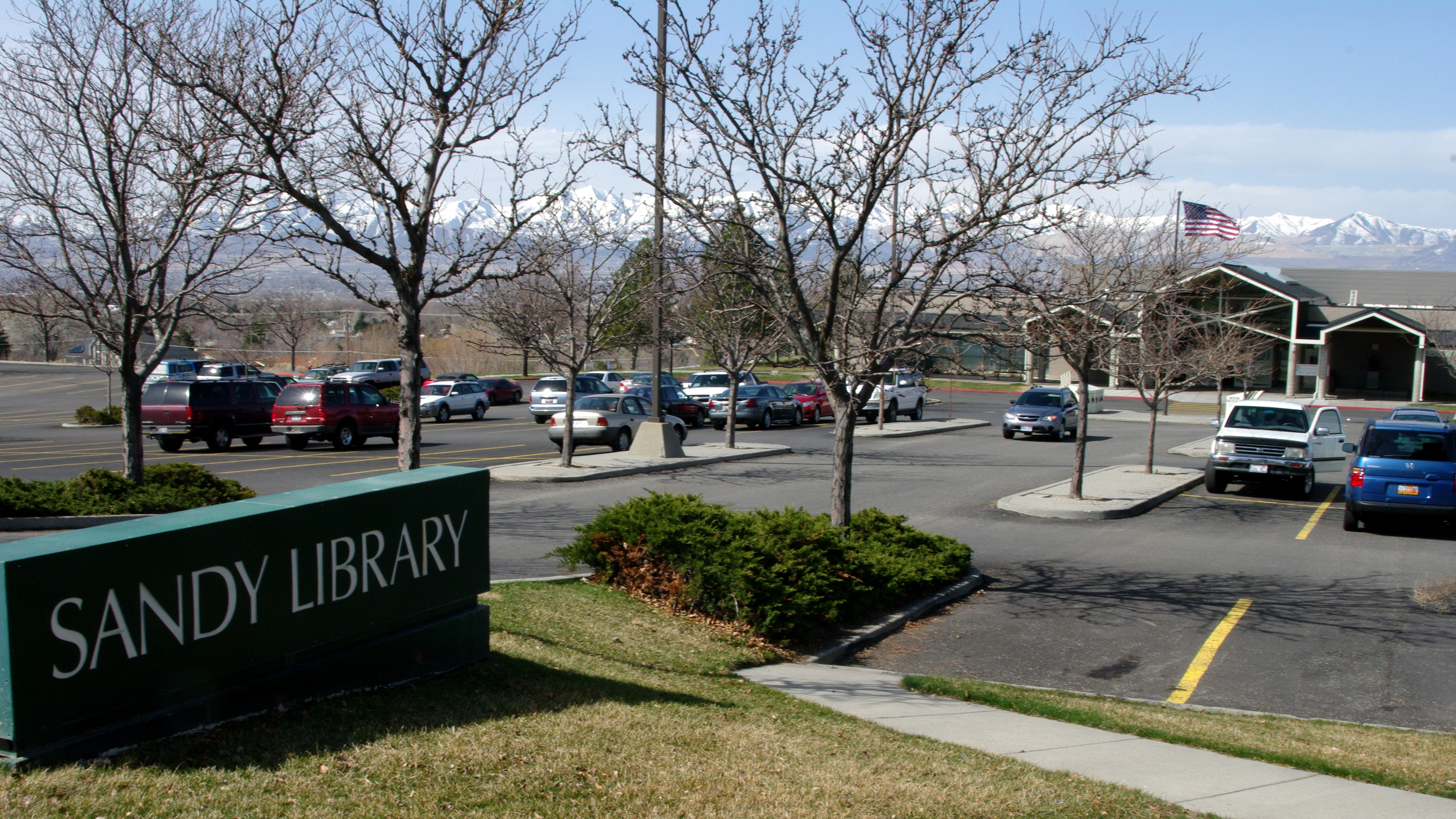 Sandy Library, part of the Salt Lake County library system.